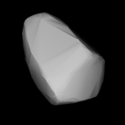 3D convex shape model of 1173 Anchises, computed using light curve inversion techniques. J. Hanuš, J. Ďurech, M. Brož, B. D. Warner (June 2011). "A study of asteroid pole-latitude distribution based on an extended set of shape models derived by the lightcurve inversion method". Astronomy and Astrophysics 530: A134. ISSN 0004-6361. arXiv